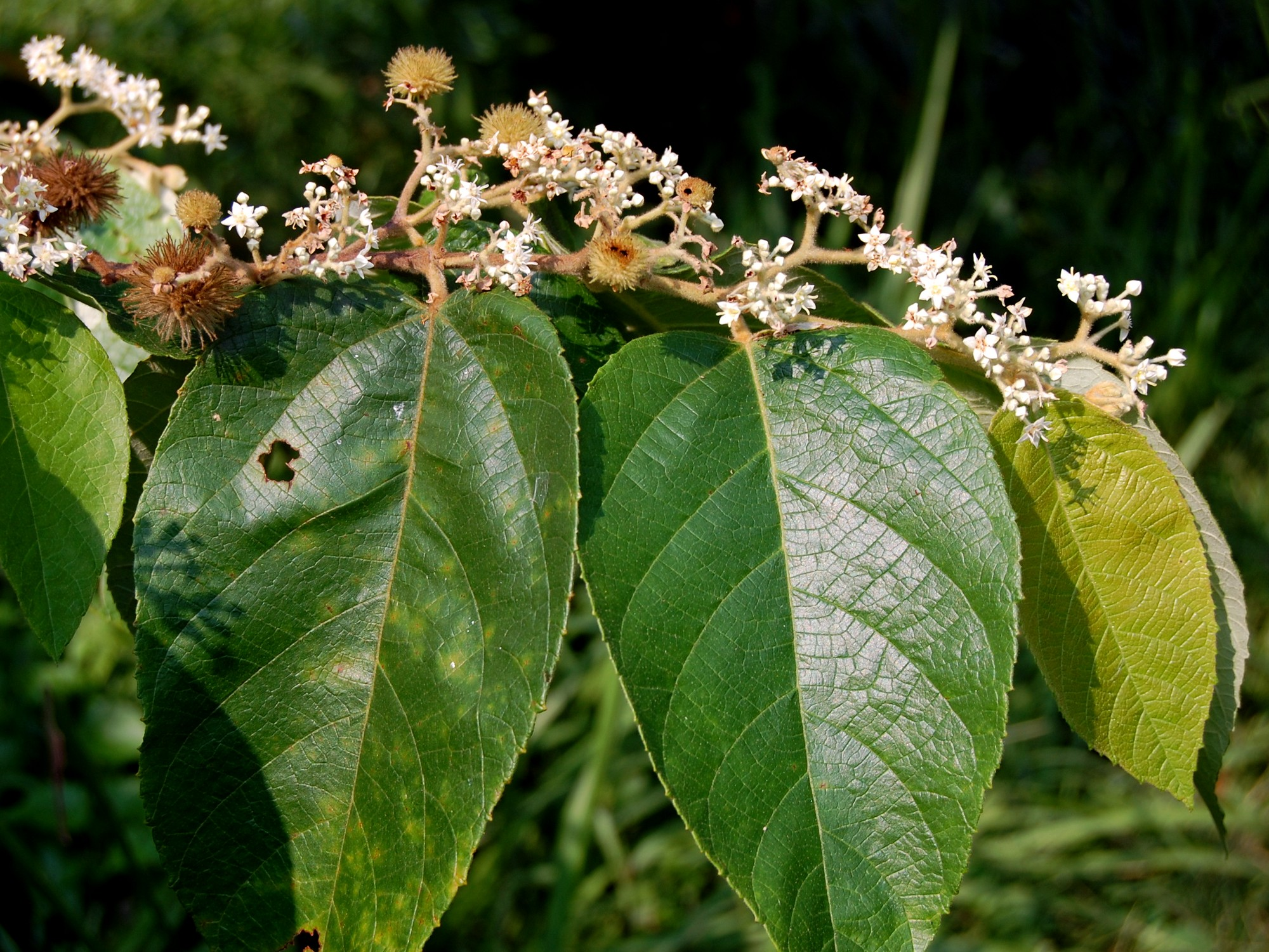 Commersonia bartramia; flowering & fruiting branch. From Bogor, West Java, Indonesia.